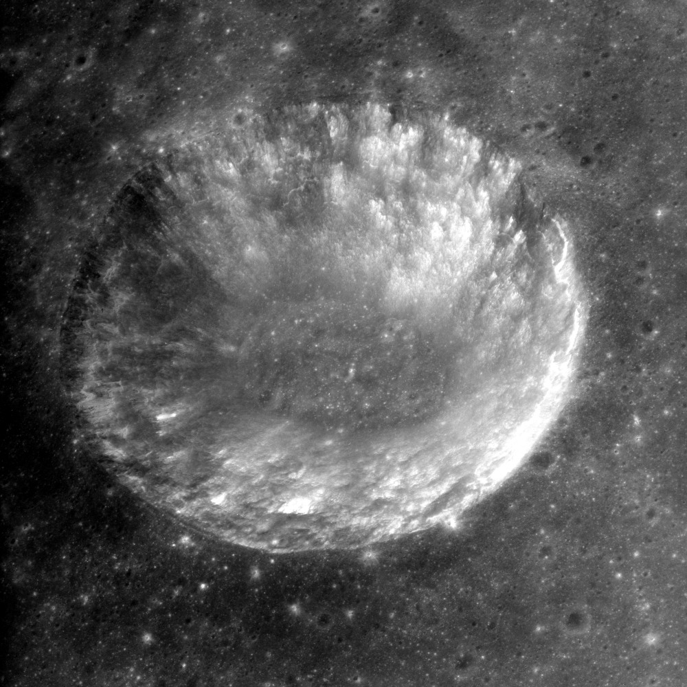 Slightly oblique view of Greaves crater, Mare Crisium, the moon.